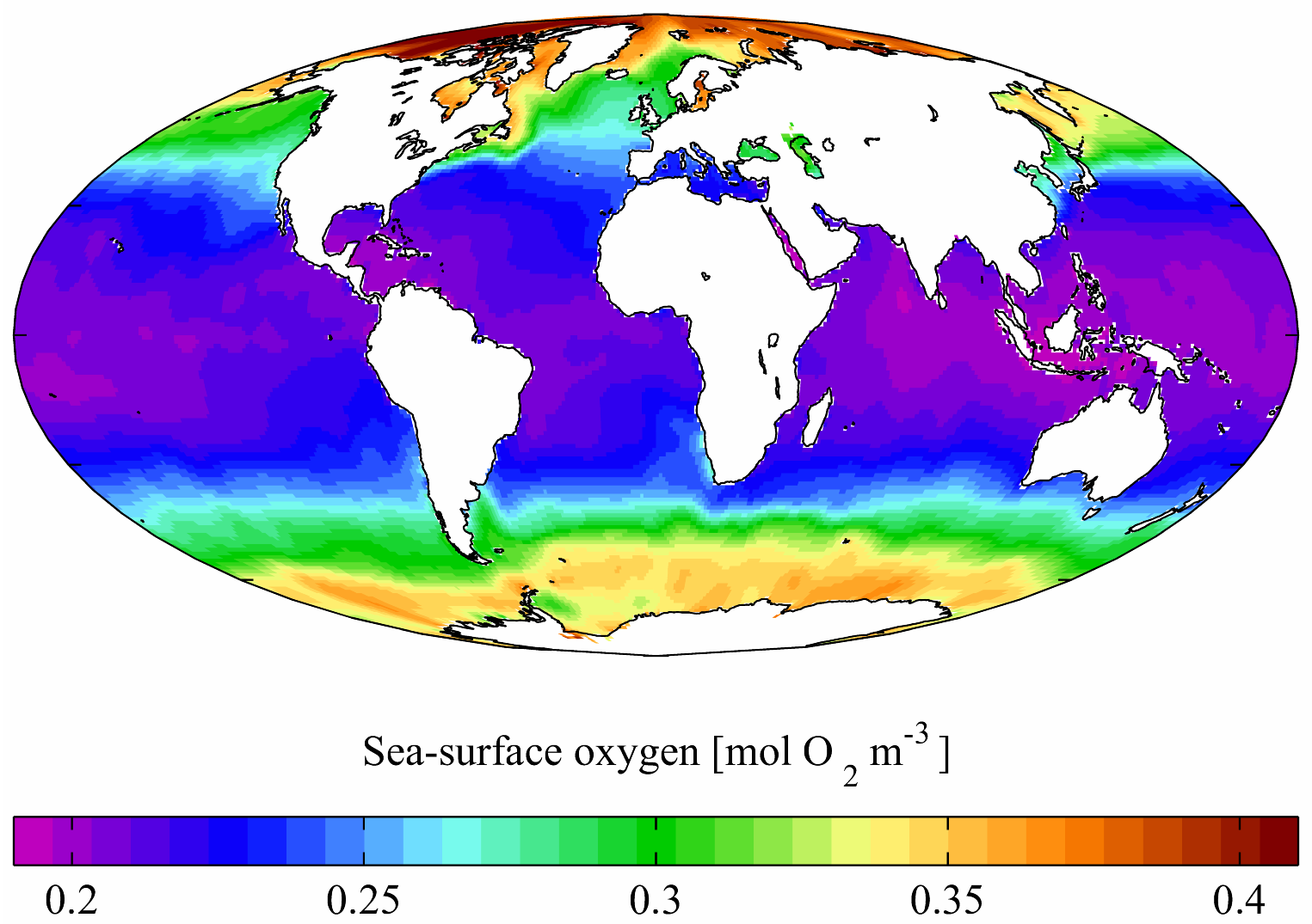 Annual mean sea surface oxygen from the World Ocean Atlas 2001. It is plotted here using a Mollweide projection (using MATLAB and the M_Map package).